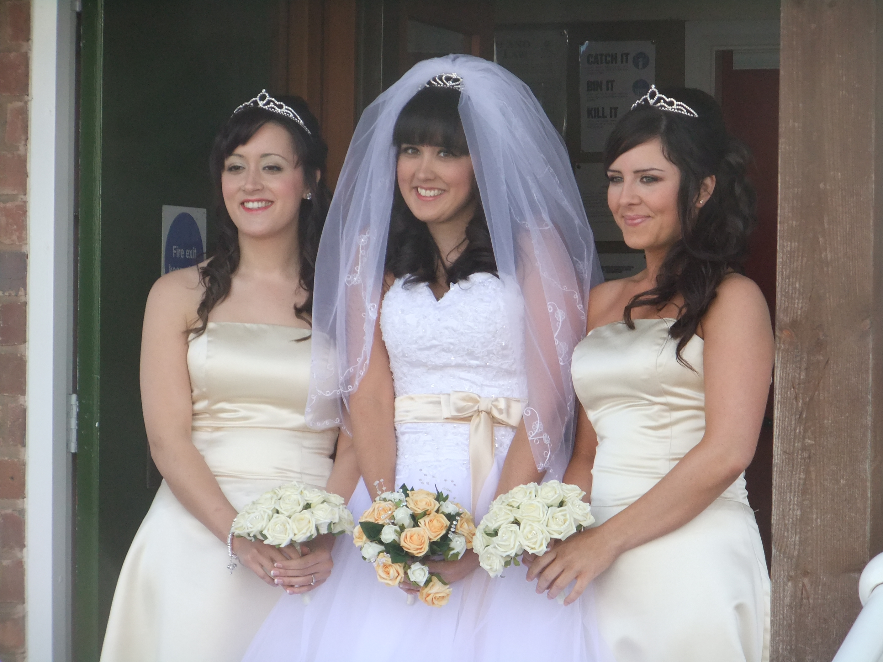 The bride and her bridesmaids.